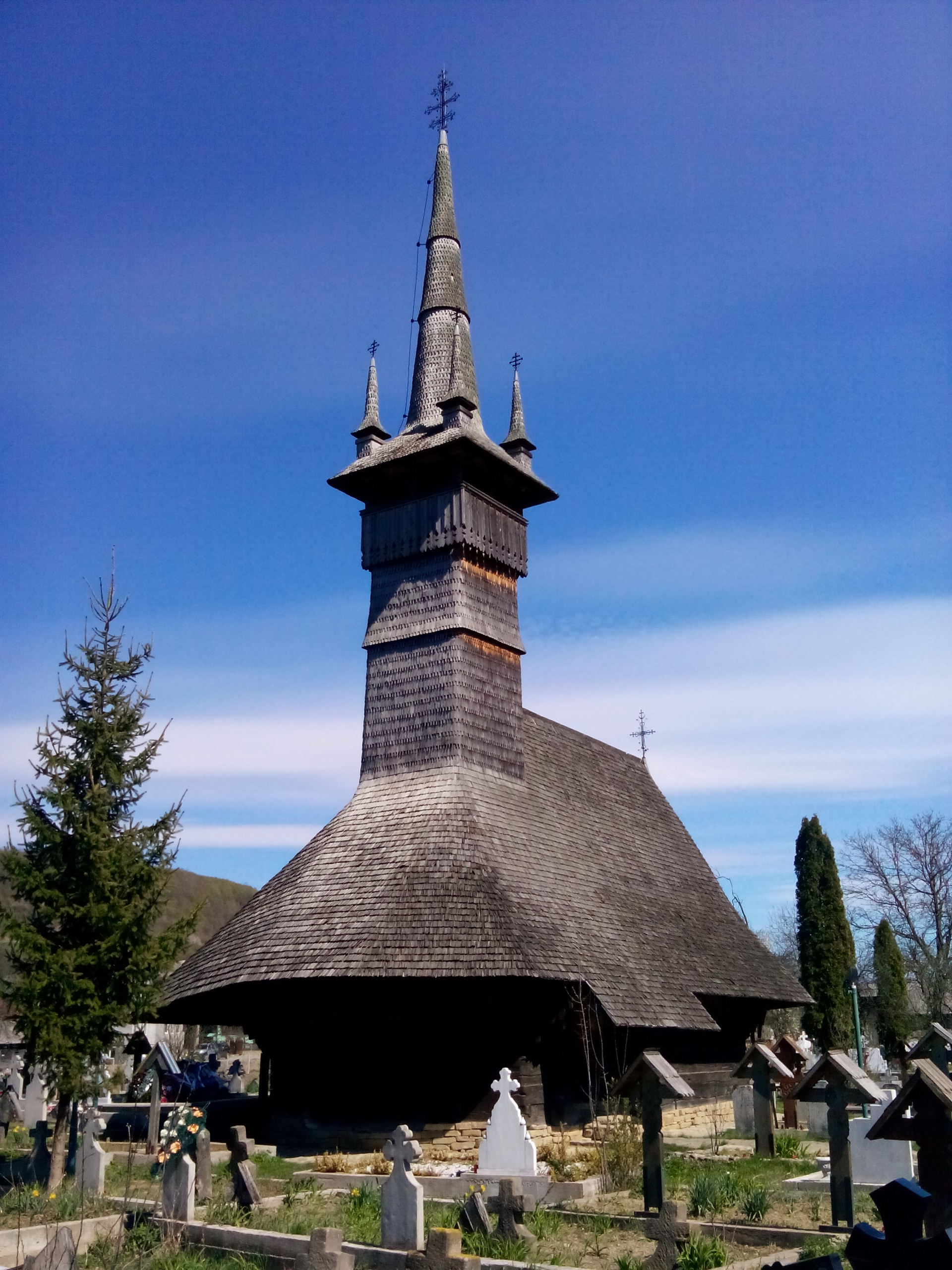 Wooden church ”Sf. Arhangheli” in Rogoz, Maramureș County, Romania